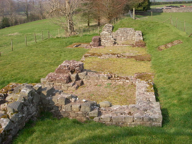 Foundations of the West Gate at Cicvcivm - Brecon Gaer, near to Aberyscir, Powys, Great Britain. Remains of the old Roman fort two miles west of Brecon/Aberhonddu. Despite being in the care of Cadw, the site seems sadly neglected.